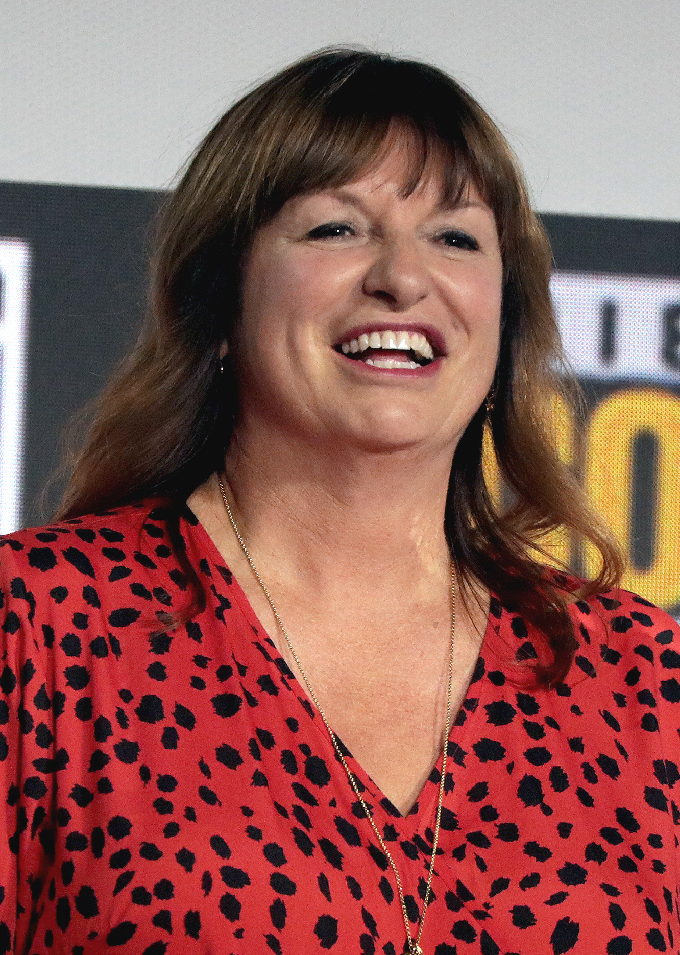 Cate Shortland speaking at the 2019 San Diego Comic-Con International in San Diego, California.